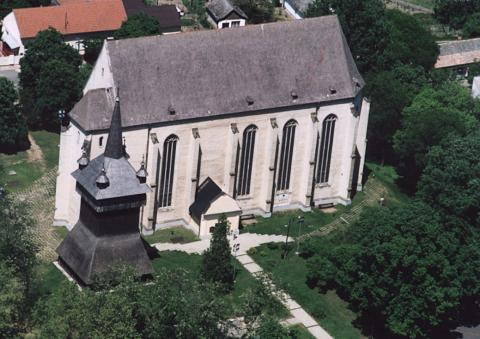 Nyírbátor Hungary aerialphotography